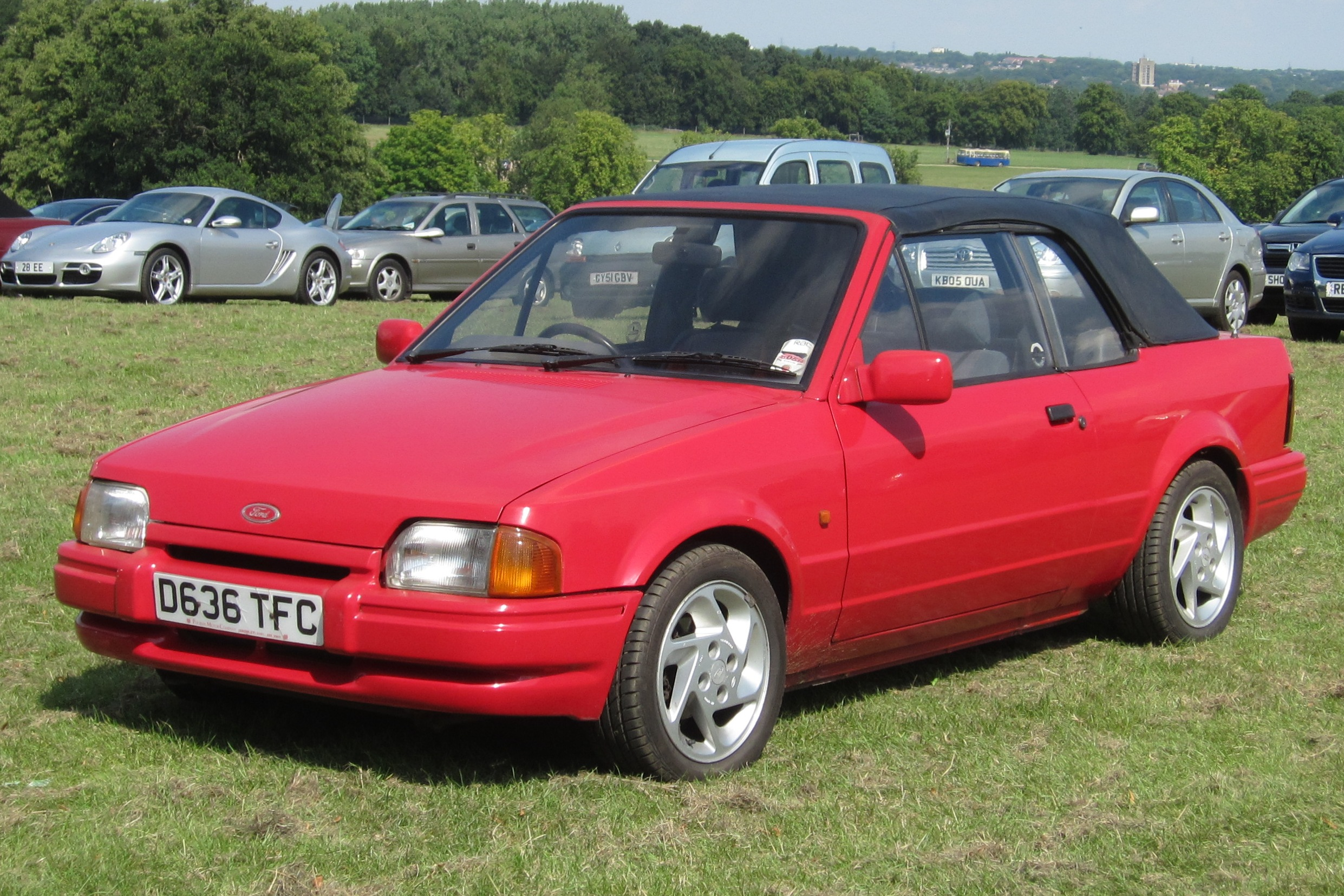 Ford Escort 4 Cabriolet (1986)